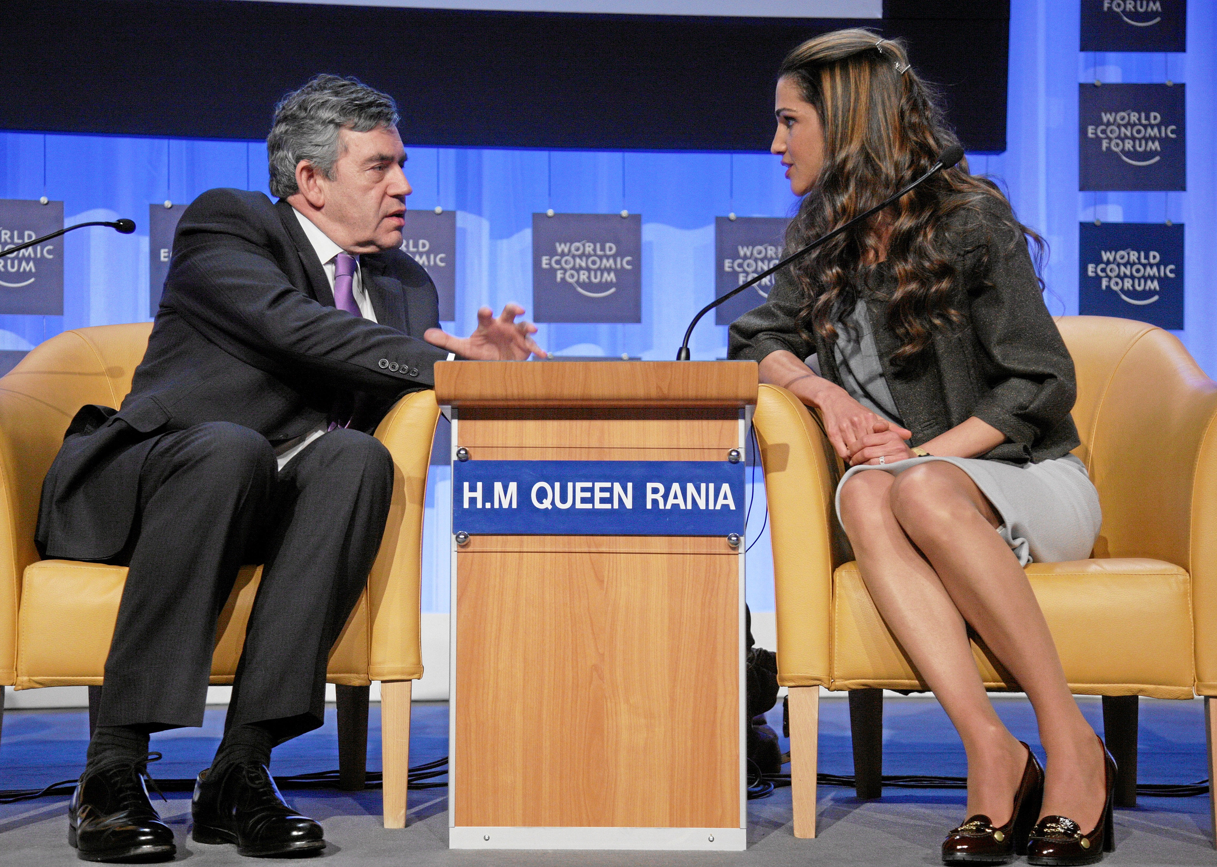 DAVOS/SWITZERLAND, 25JAN08 - Gordon Brown, Prime Minister of the United Kingdom and H.M. Queen Rania Al Abdullah of the Hashemite Kingdom of Jordan, Member of the Foundation Board of the World Economic Forum, talk to each other during the session 'Corporate Global Citizenship in the 21st Century' at the Annual Meeting 2008 of the World Economic Forum in Davos, Switzerland, January 24, 2008. Copyright World Economic Forum ( by Andy Mettler